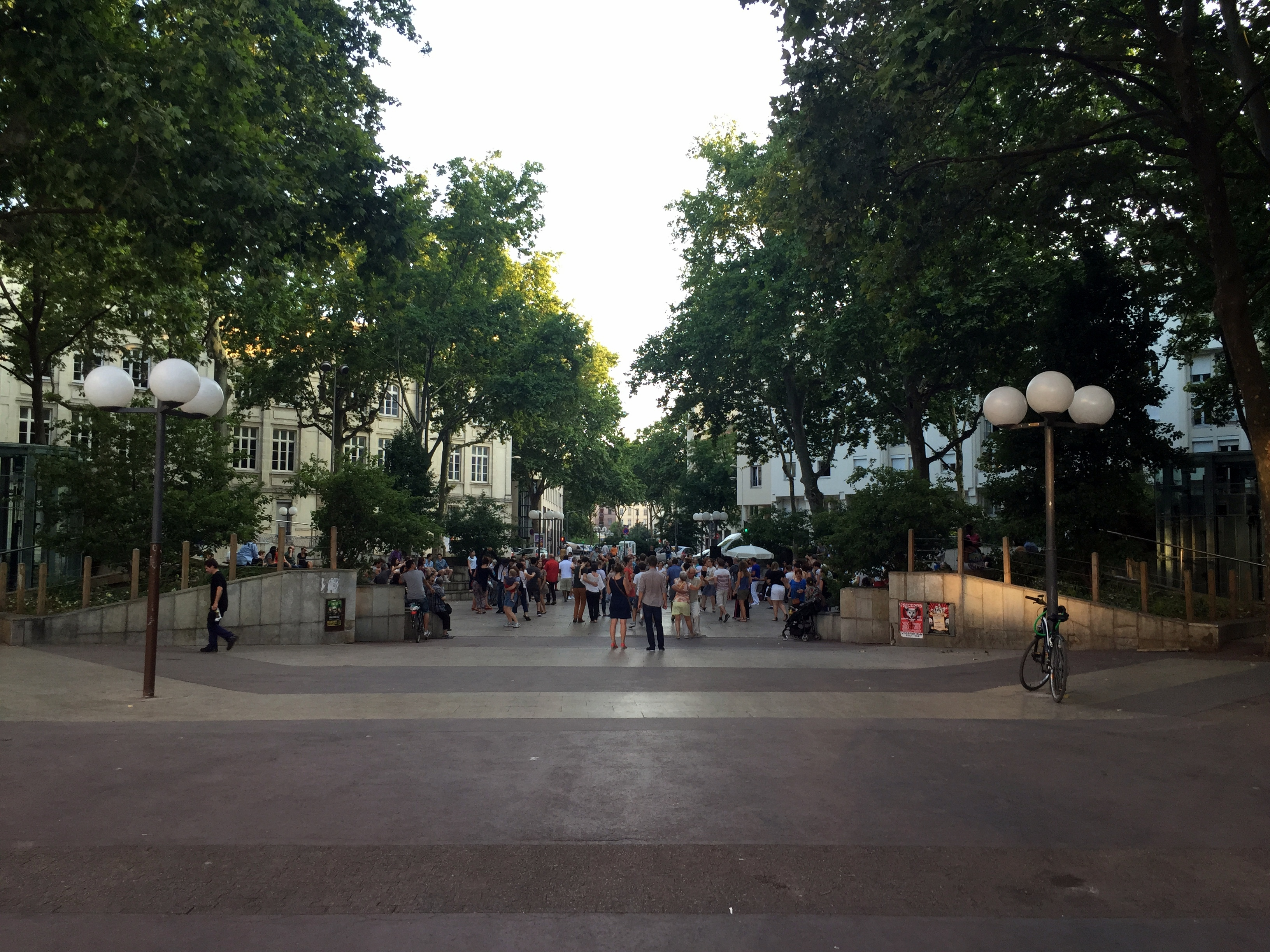 This photograph was taken with an iPhone 6